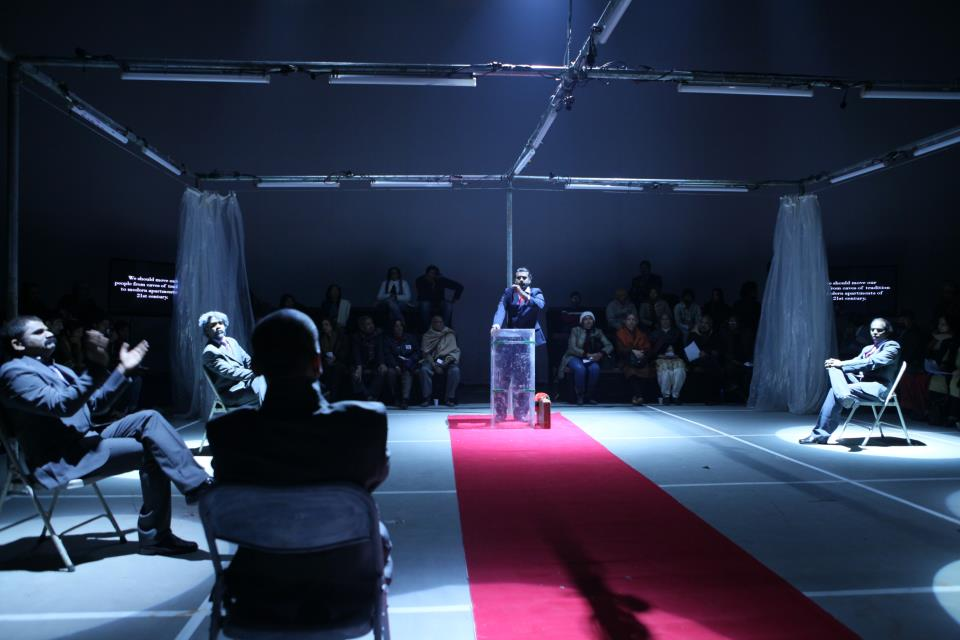 Peer Gynt-2010 Scenography& Direction Deepan Sivaraman. Produced by Oxygen Theatre Company Kerala